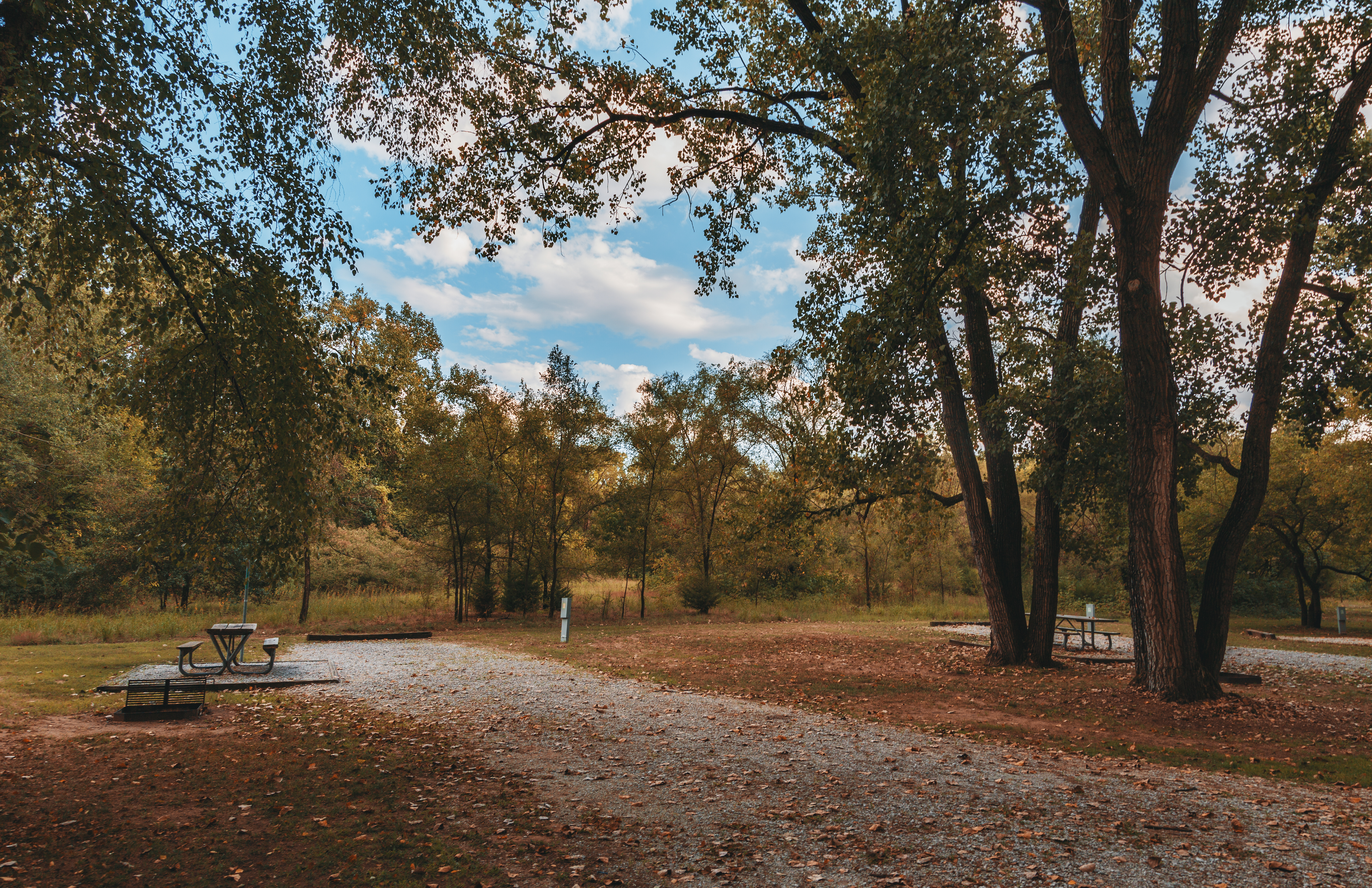 A campsite at the Wakonda State Park campground in La Grange, Missouri, in summer.